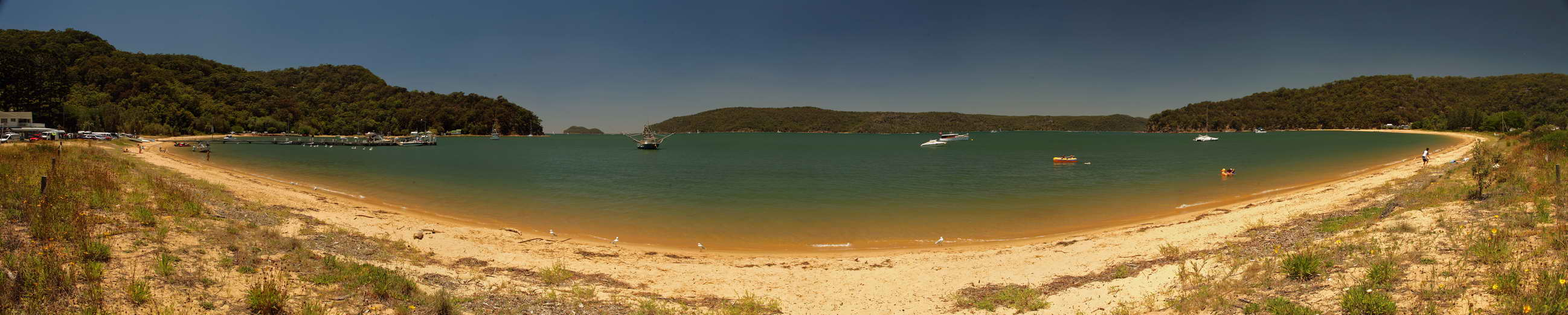 Patonga Beach, Broken Bay, NSW, Australia